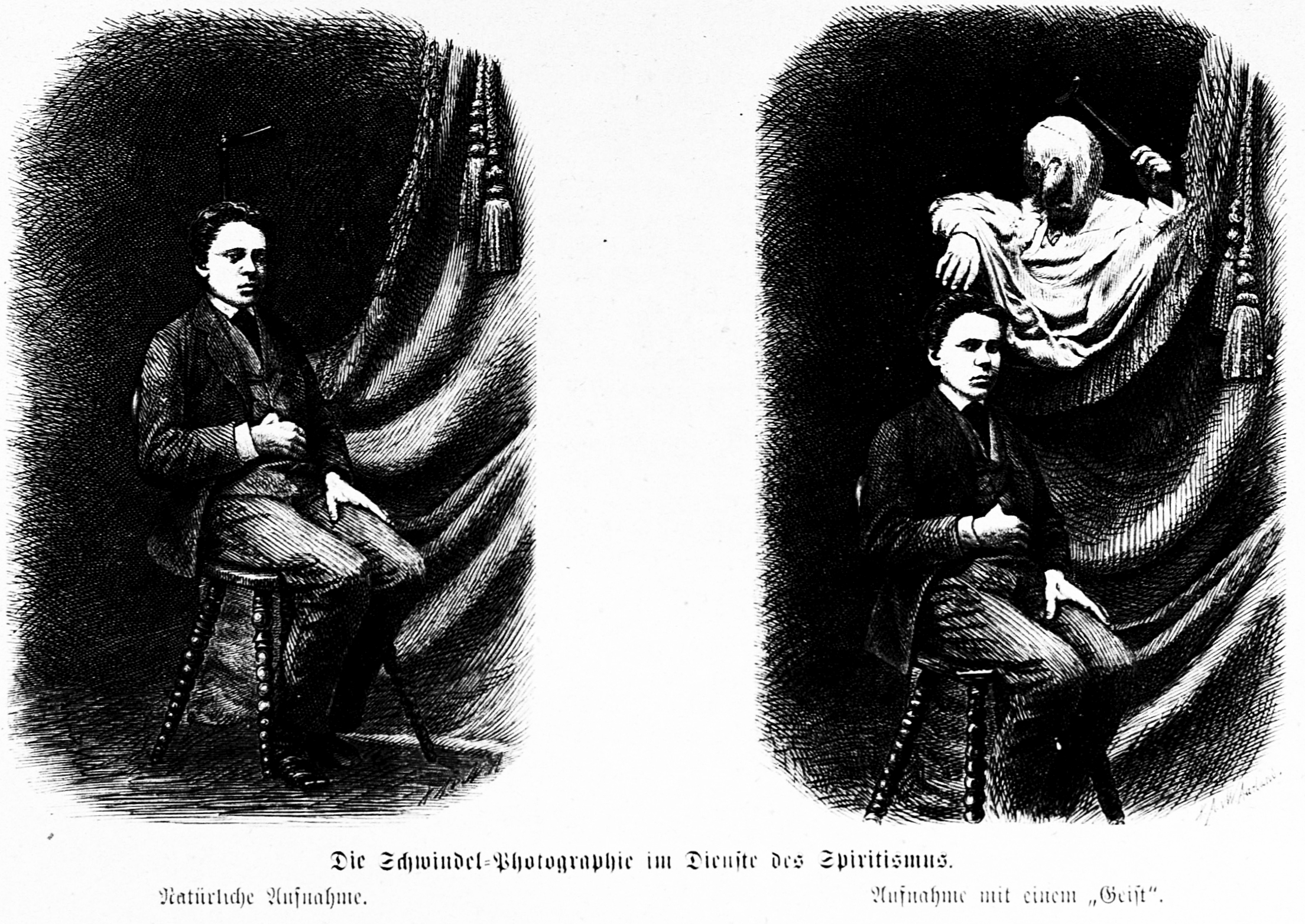 caption: "Schwindel-Photographie im Dienste des Spiritismus. Natürliche Aufnahme. Aufnahme mit einem „Geist“."